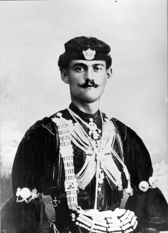 Photograph of the Greek chieftain of the Macedonian Struggle Simos Ioannidis, early 20th century.